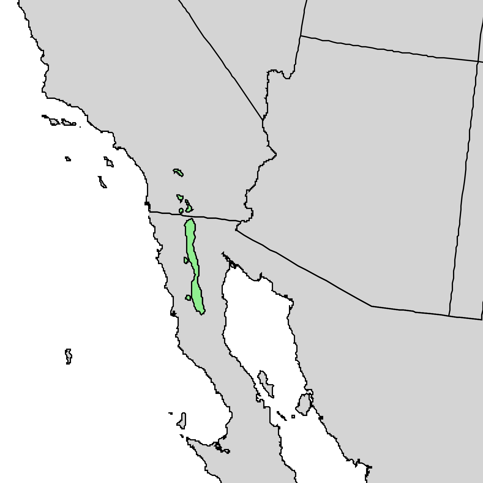 Natural distribution map for Pinus quadrifolia